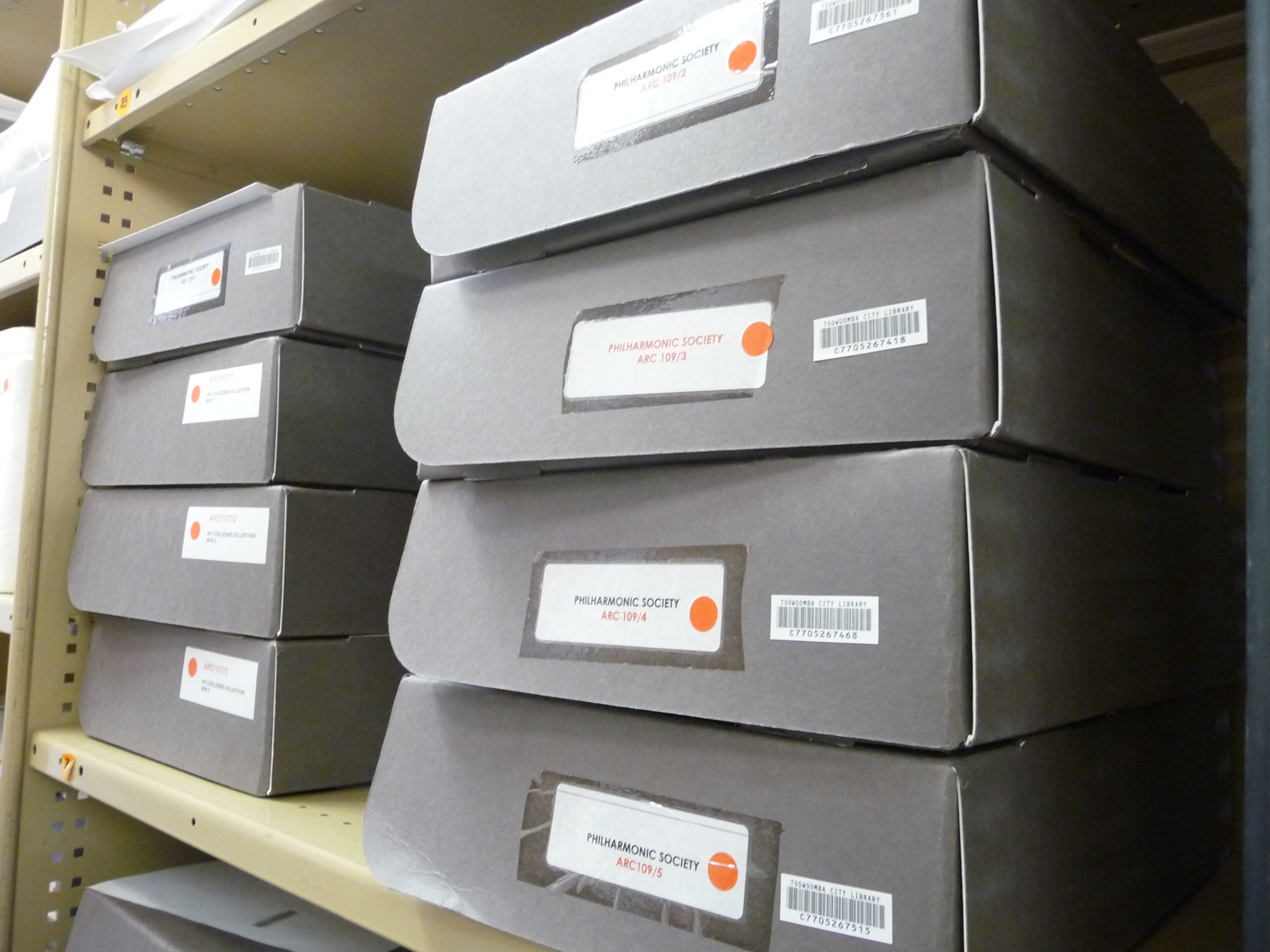 Archival collections in Robinson Collection at the Toowoomba Local History Library